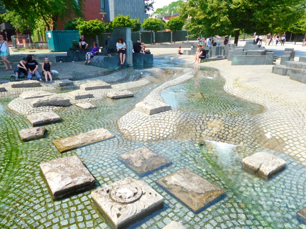 Water feature in Cologne, Germany, summer of 2017.